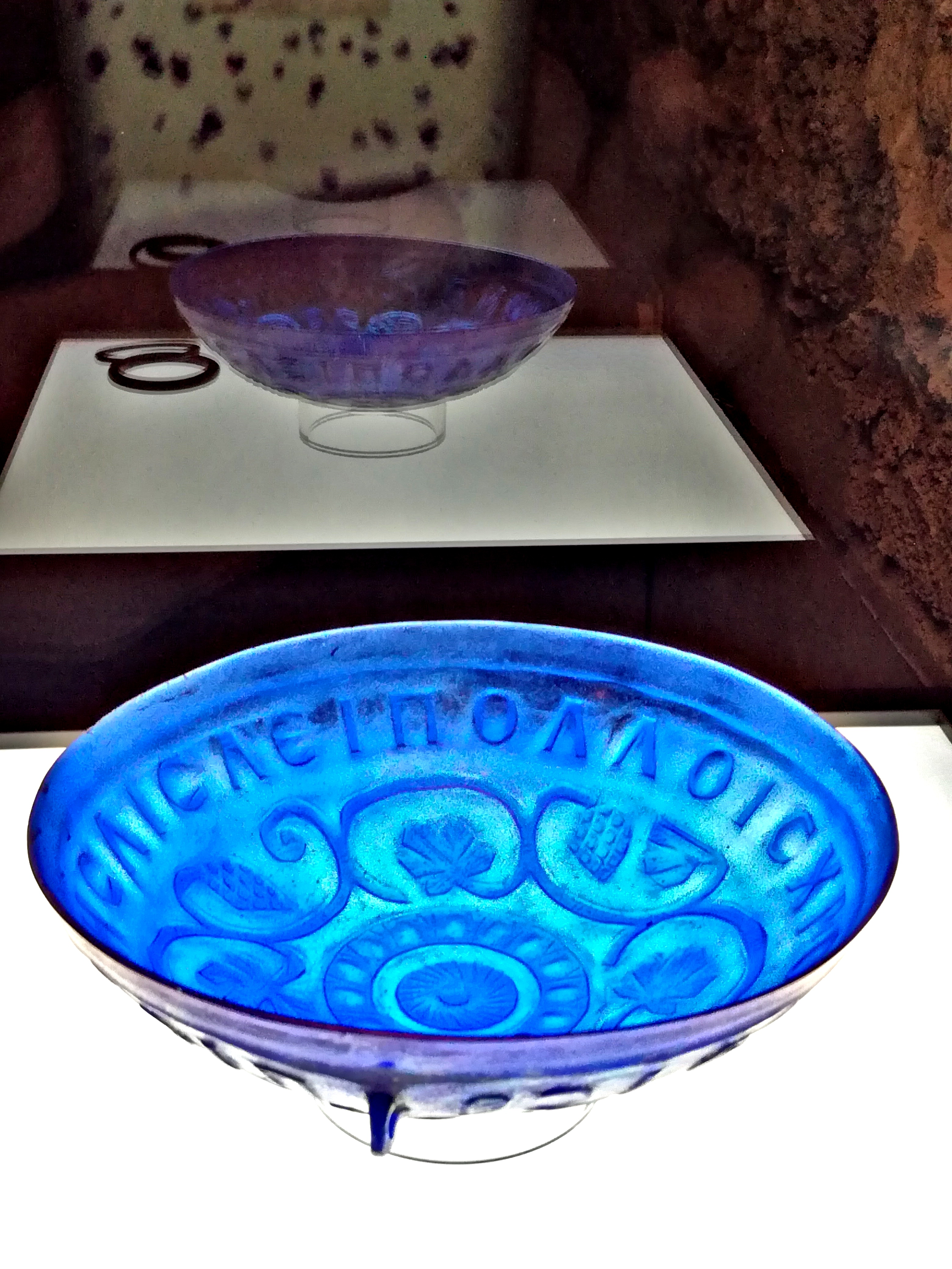 Transparent blue glass bowl from Roman Emona, present day Ljubljana